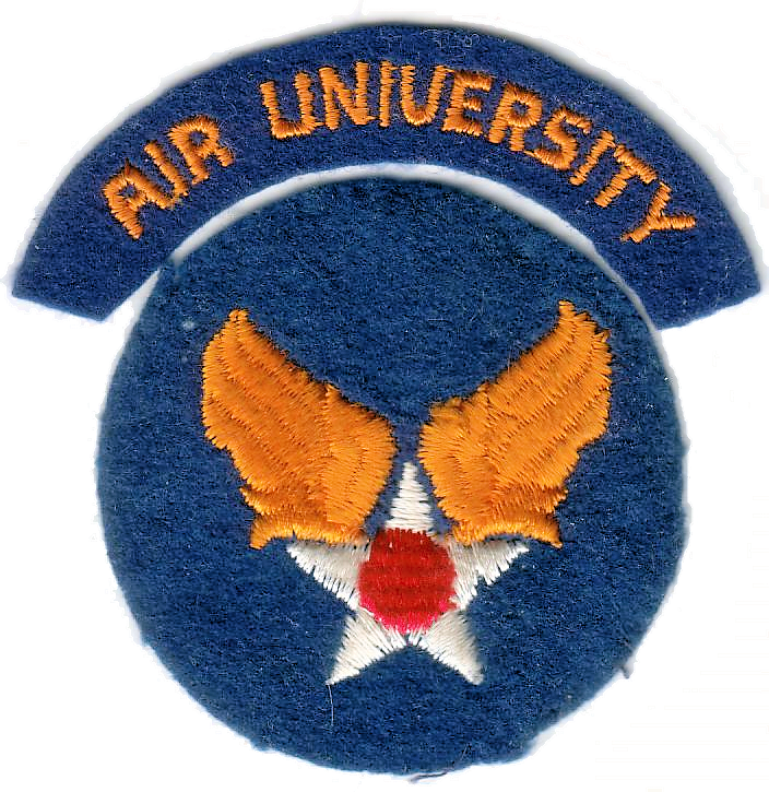 Air University, World War II AAF Shoulder Patch